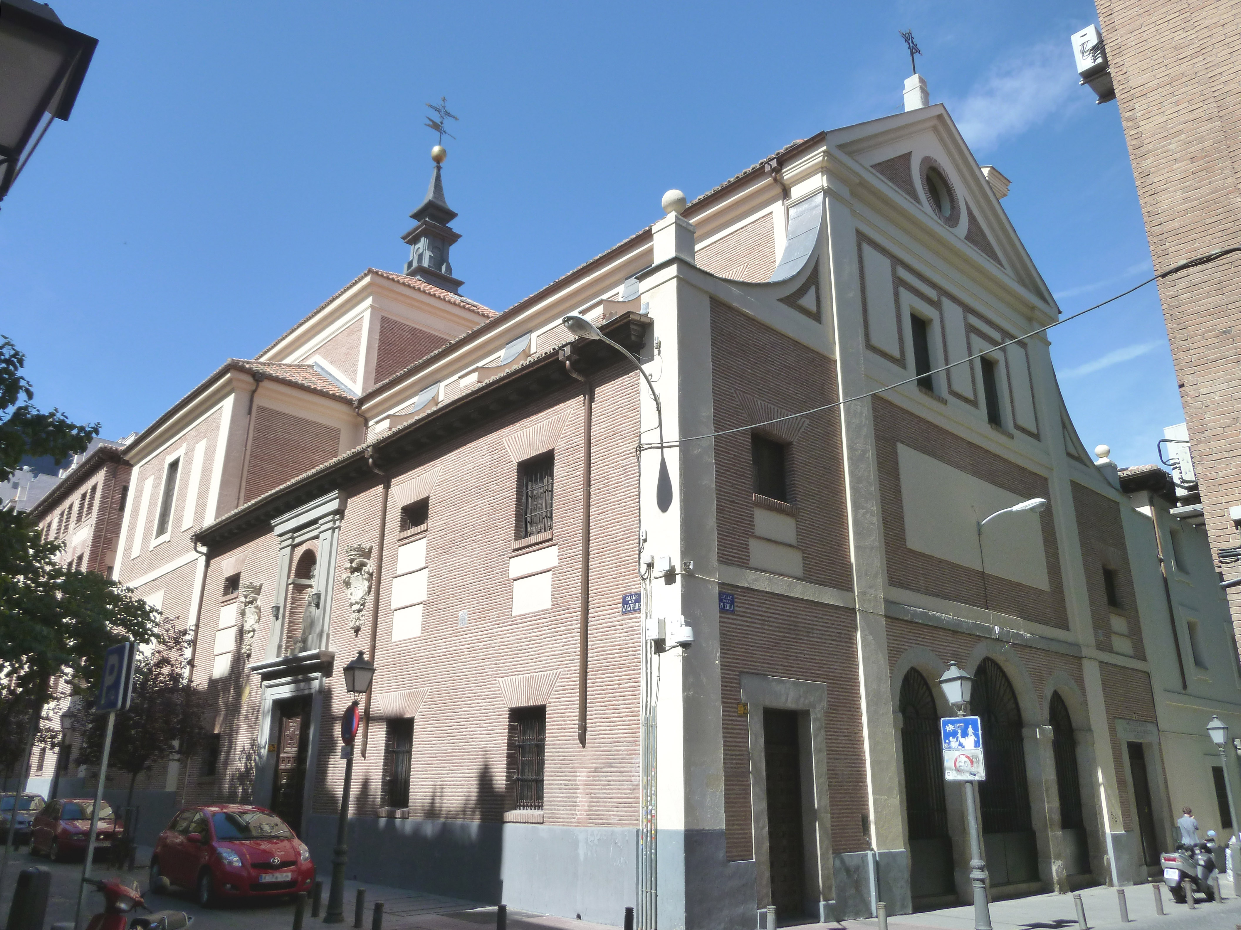 View of Convento de Don Juan de Alarcón (a convent) in Madrid (Spain) from the north-east angle.